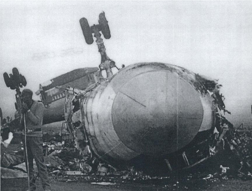 This is what is left of Indian airlines flight 840 which was Leased by Uzbekistan airways i took this photo while in delhi in 1993